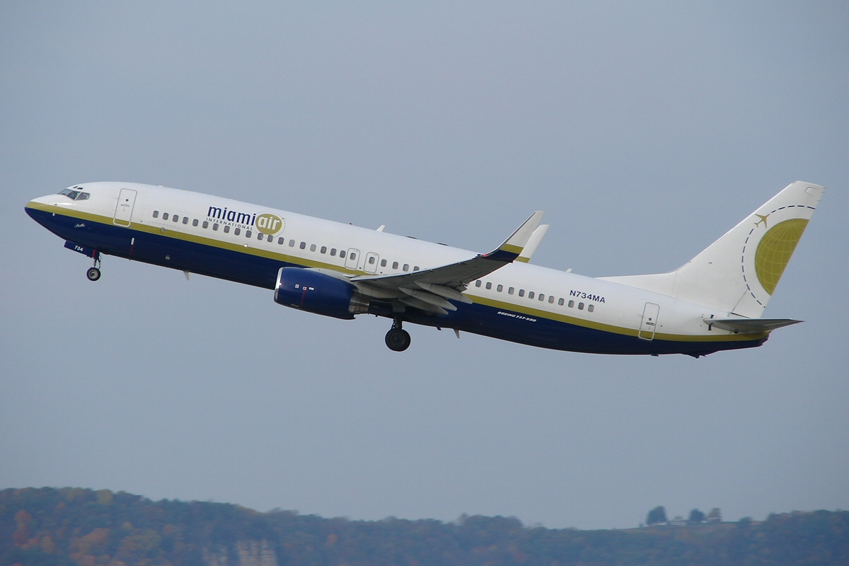 off to San Diego